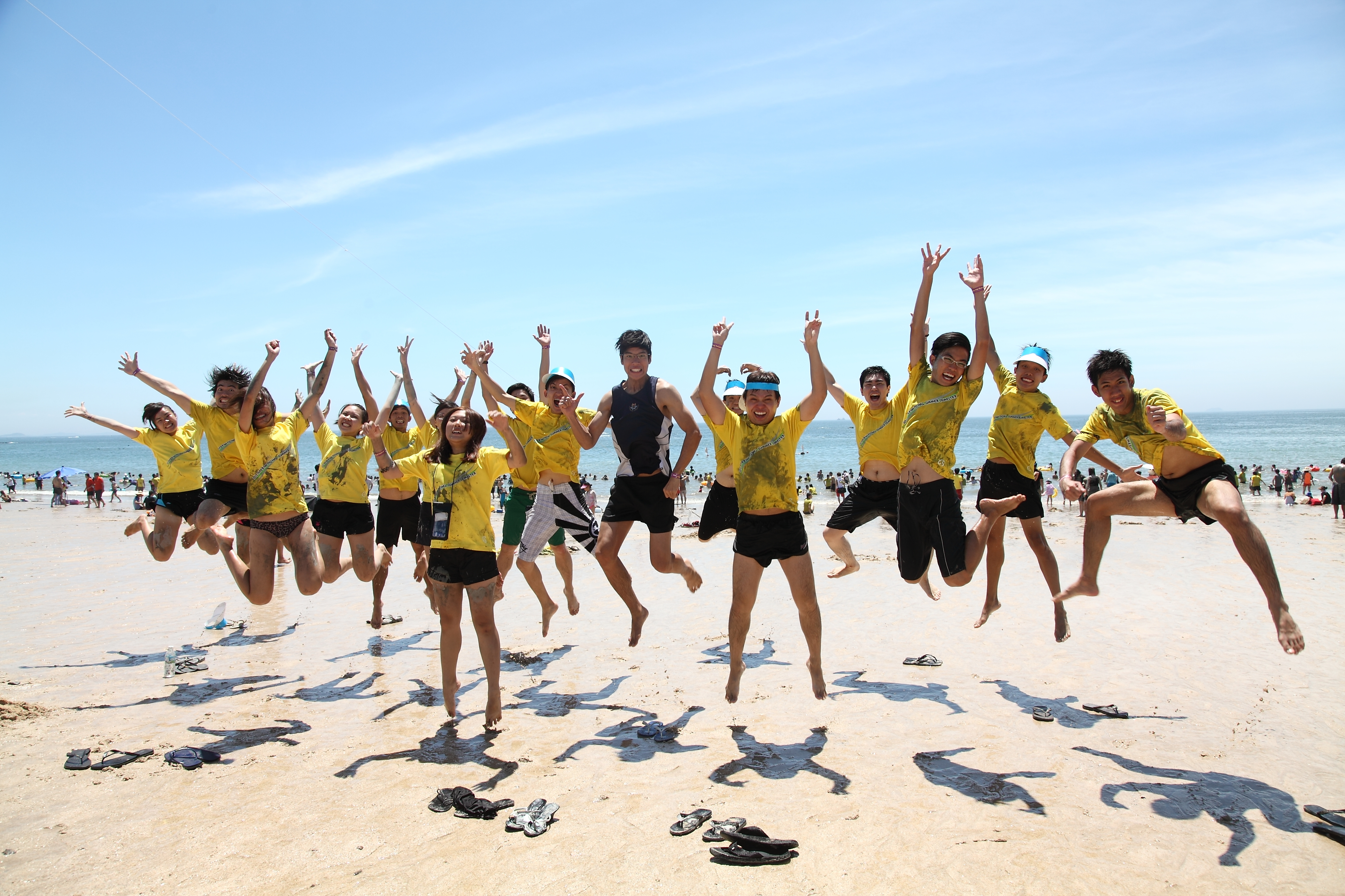 This is a picture of the SKKU International Summer Semester field trip to Boryeong Mud Festival.